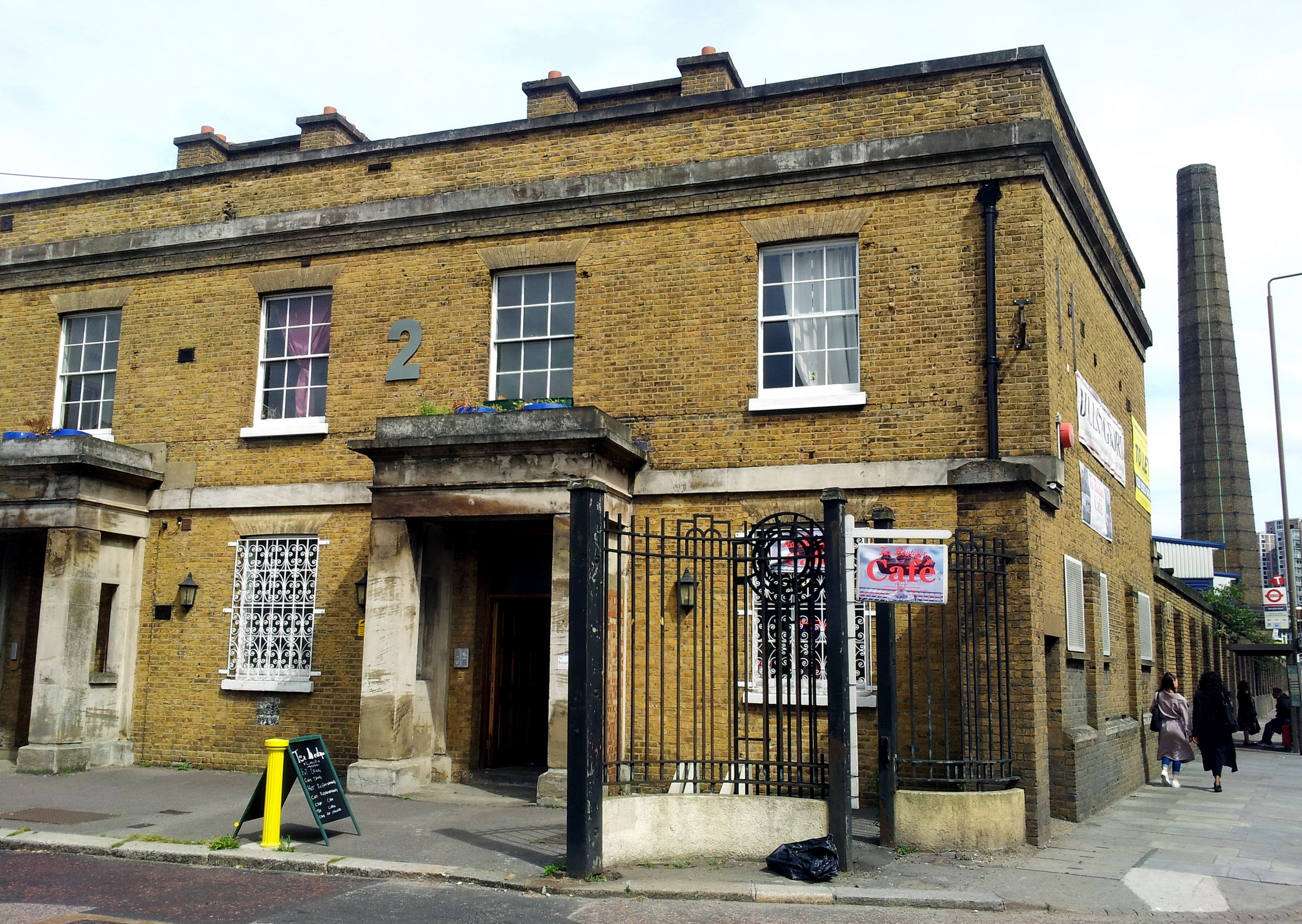 Cooperative Funeralcare, in an old factory building on the north side of Woolwich Church Street, on the grounds of the former Woolwich Dockyard, Woolwich, South East London.